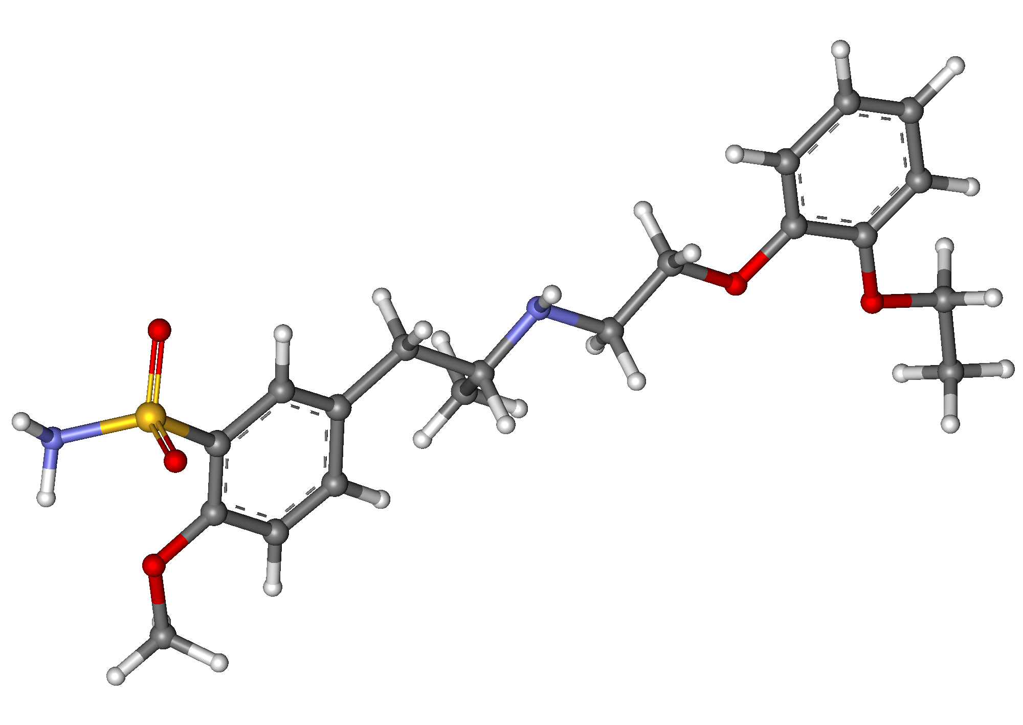 Ball-and-stick model of tamsulosin molecule. The structure is taken from ChemSpider. ID 114457